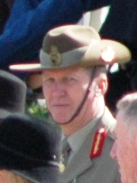 Lieutenant General Peter Leahy, Chief of Army at the 2008 National Anzac Day service, Australian War Memorial, Canberra.